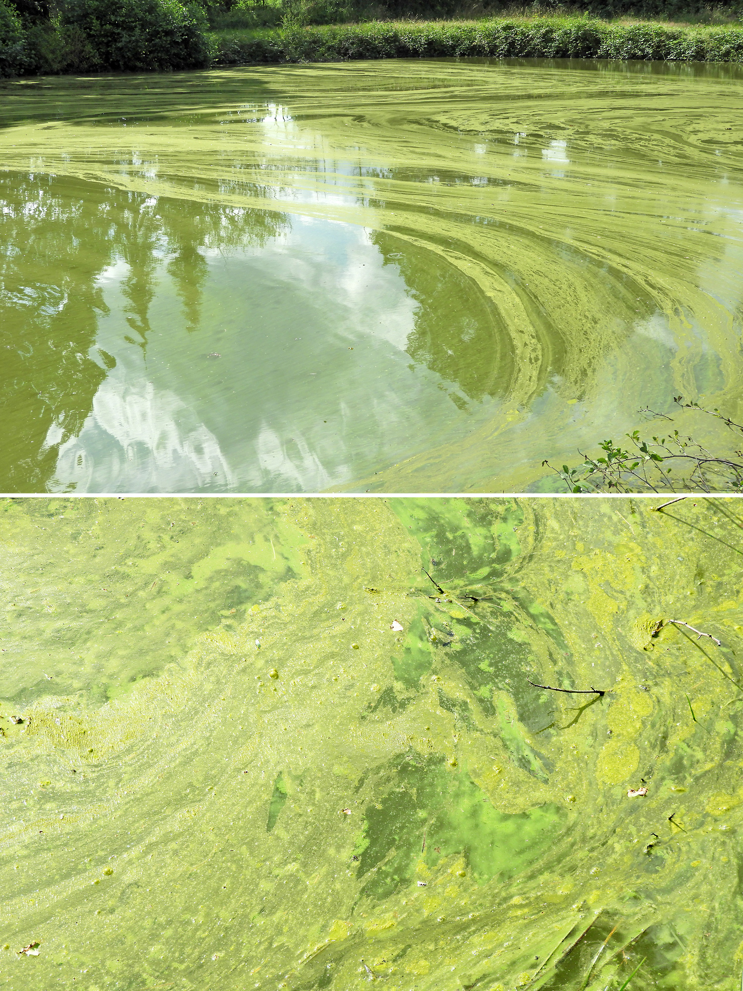 Bloom of cyanobacteria ("blue-green algae") in a freshwater fish-pond in northern Germany. Top: overview, bottom: detail on the surface.